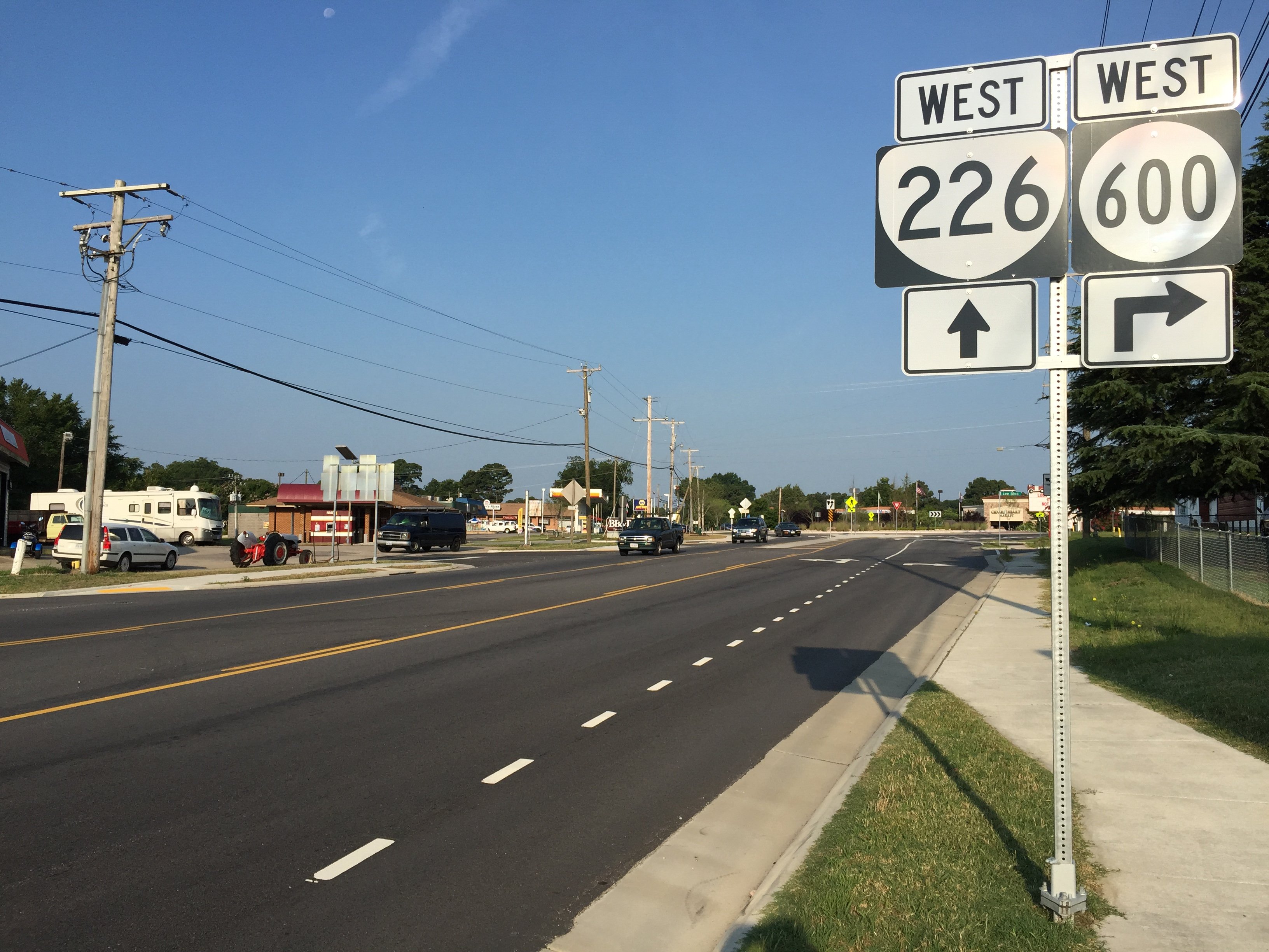 View west along Virginia State Route 226 (Cox Road) at Lee Boulevard (Virginia State Secondary Route 1301) just west of Petersburg in Dinwiddie County, Virginia